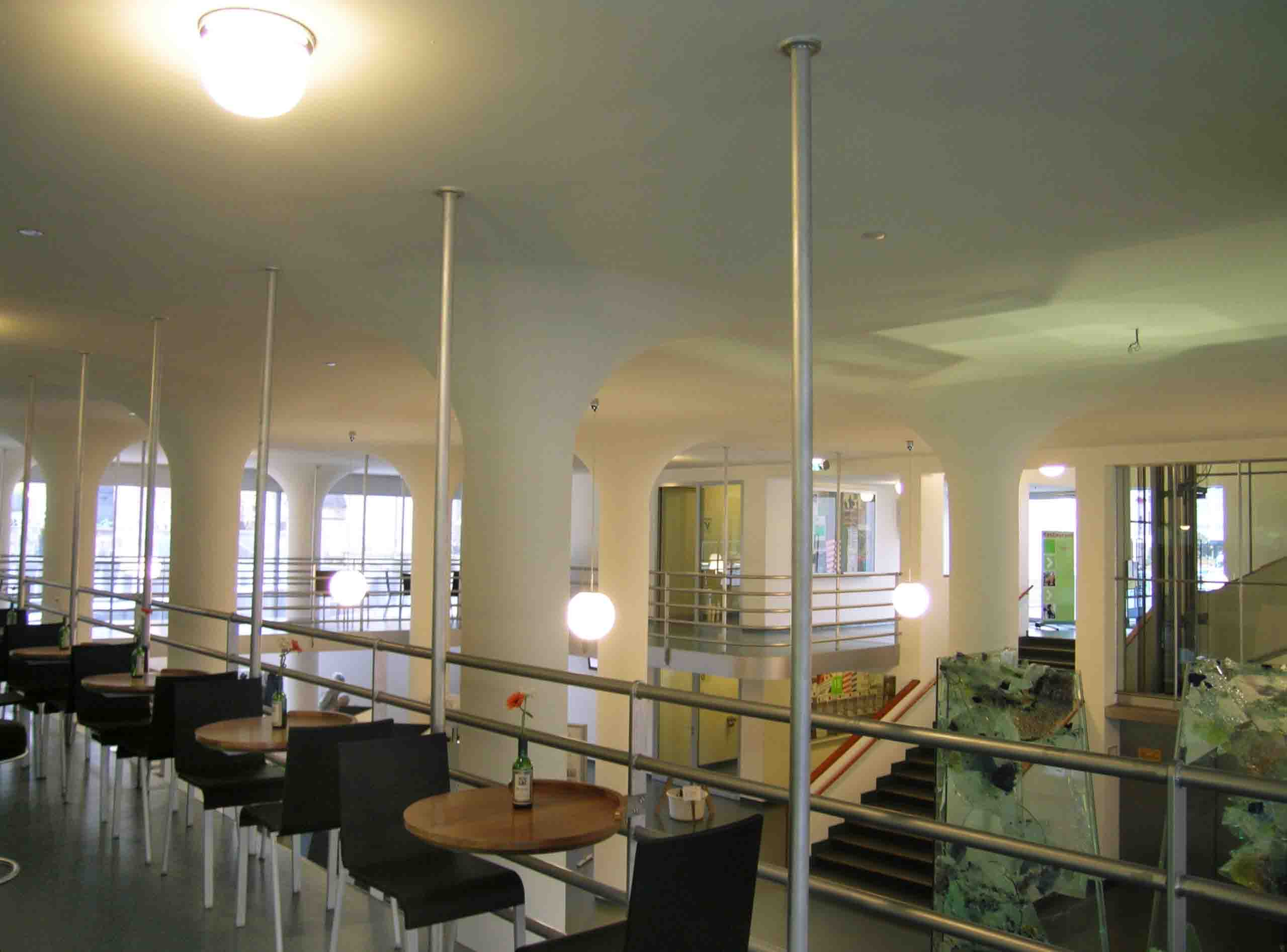 Photograph made and uploaded by Dirk van der Made The interior of the Glaspaleis, ground floor and entresol.